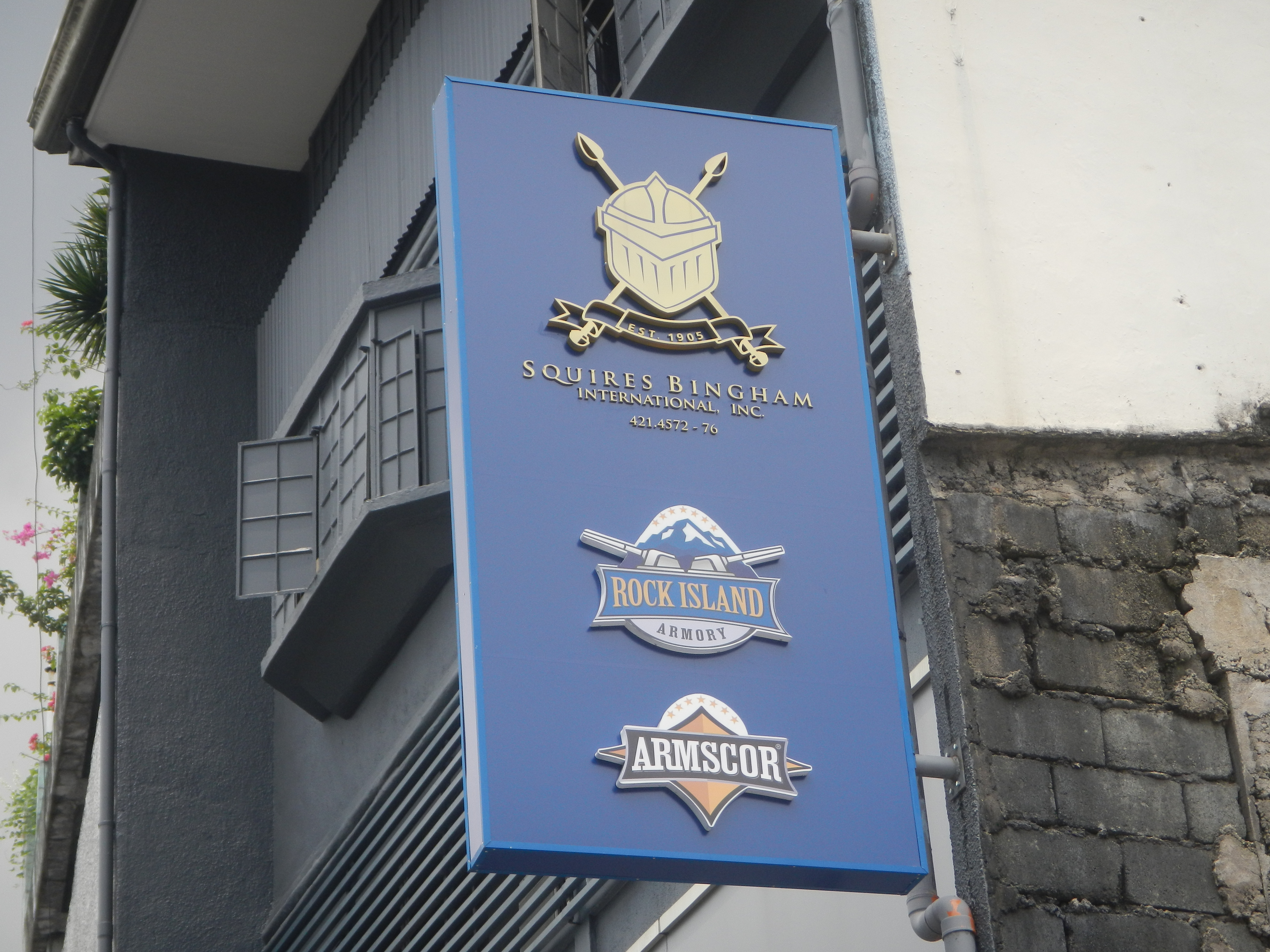 Murphy, Cubao, in Socorro, Quezon City, Barangay San Roque (Cubao Extension), to Bonny Serrano Avenue Colonel Bonny S. Serrano Avenue (8th to 15th Avenue, Socorro-Bagong Lipunan Crame-Camp Aguinaldo, Murphy, Cubao, Quezon City section) 15th Avenue, Murphy, Cubao, Quezon City, Armscor (Philippines) formerly Squires Bingham International, Inc. (Est 1905, Bonny Serrano Avenue, Socorro, Quezon City) Guns Ammo Accessories, Rock Island Armory, Armscor F & H Ongpauco Building 1989 Philippine Public Safety College DILG Al-Fer Building Main Avenue Bus Stop B South Road along and from EDSA (road) to Aurora Boulevard, Quezon City upon the Araneta Center–Cubao MRT Station, Araneta Center–Cubao LRT Station, in the List of barangays of Metro Manila Legislative districts of Quezon City Districts IV, Barangays of Quezon City, Barangays San Roque (Cubao Extension), beside Barangays Bagong Lipunan Crame and Socorro, Quezon City, Quezon City (Note: Judge Florentino Floro, the owner, to repeat, Donor Florentino Floro of all these photos hereby donate gratuitously, freely and unconditionally all these photos to and for Wikimedia Commons, exclusively, for public use of the public domain, and again without any condition whatsoever).